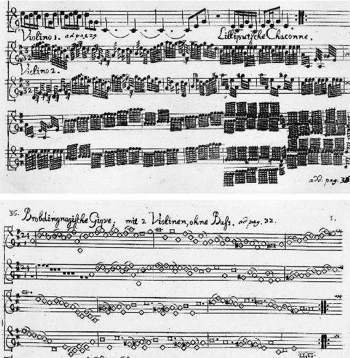 The "Lilliputian" chaconne and "Brobigdinian" gigue from Telemann's Gull-ver Suite for two violins without bass.